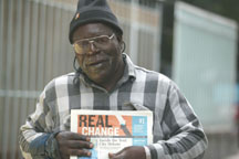 Uploaded by Real Change and owned by Real Change, which holds the copyright.